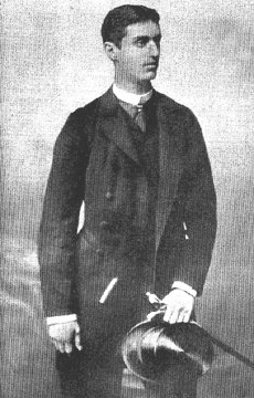 Theodor Herzl (1860-1904) as a young journalist in Vienna.